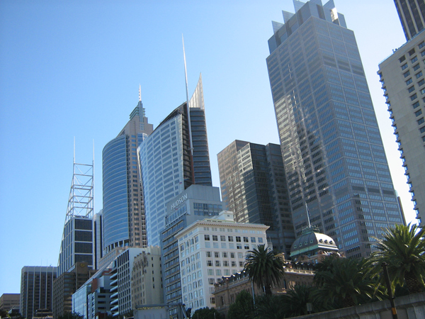 I made this photo being offsider in a car just after the exit of the tunnel under the harbour bridge.